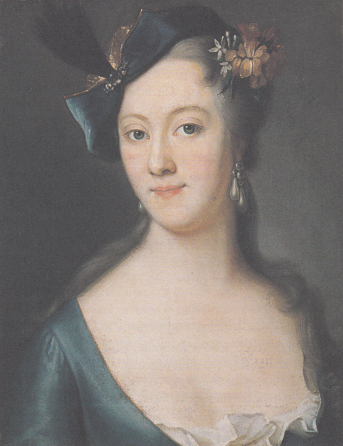 Portrait of countess Ulla Tessin (1711-1768) by Andreas Möller (1684-1762) 1736.